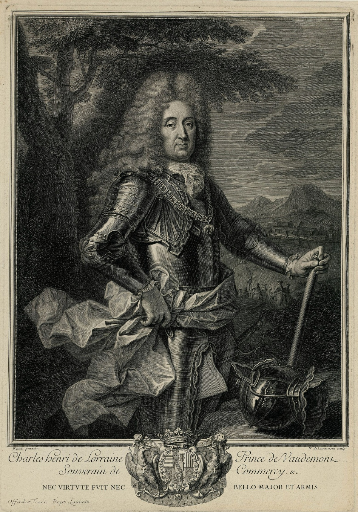 Portrait of Charles Henri de Lorraine, Prince of Vaudémont, Sovereign of Commercy in 1708